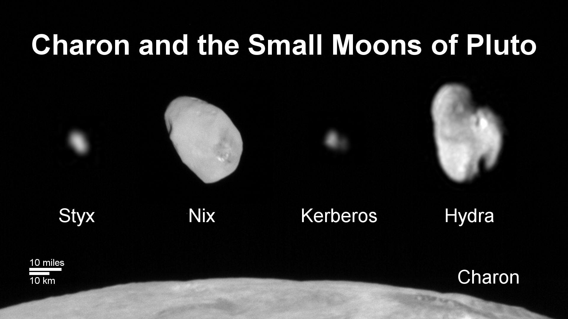 Family Portrait of Pluto’s Moons: This composite image shows a sliver of Pluto’s large moon, Charon, and all four of Pluto’s small moons, as resolved by the Long Range Reconnaissance Imager (LORRI) on the New Horizons spacecraft. All the moons are displayed with a common intensity stretch and spatial scale (see scale bar). Charon is by far the largest of Pluto’s moons, with a diameter of 751 miles (1,212 kilometers). Nix and Hydra have comparable sizes, approximately 25 miles (40 kilometers) across in their longest dimension above. Kerberos and Styx are much smaller and have comparable sizes, roughly 6-7 miles (10-12 kilometers) across in their longest dimension. All four small moons have highly elongated shapes, a characteristic thought to be typical of small bodies in the Kuiper Belt.